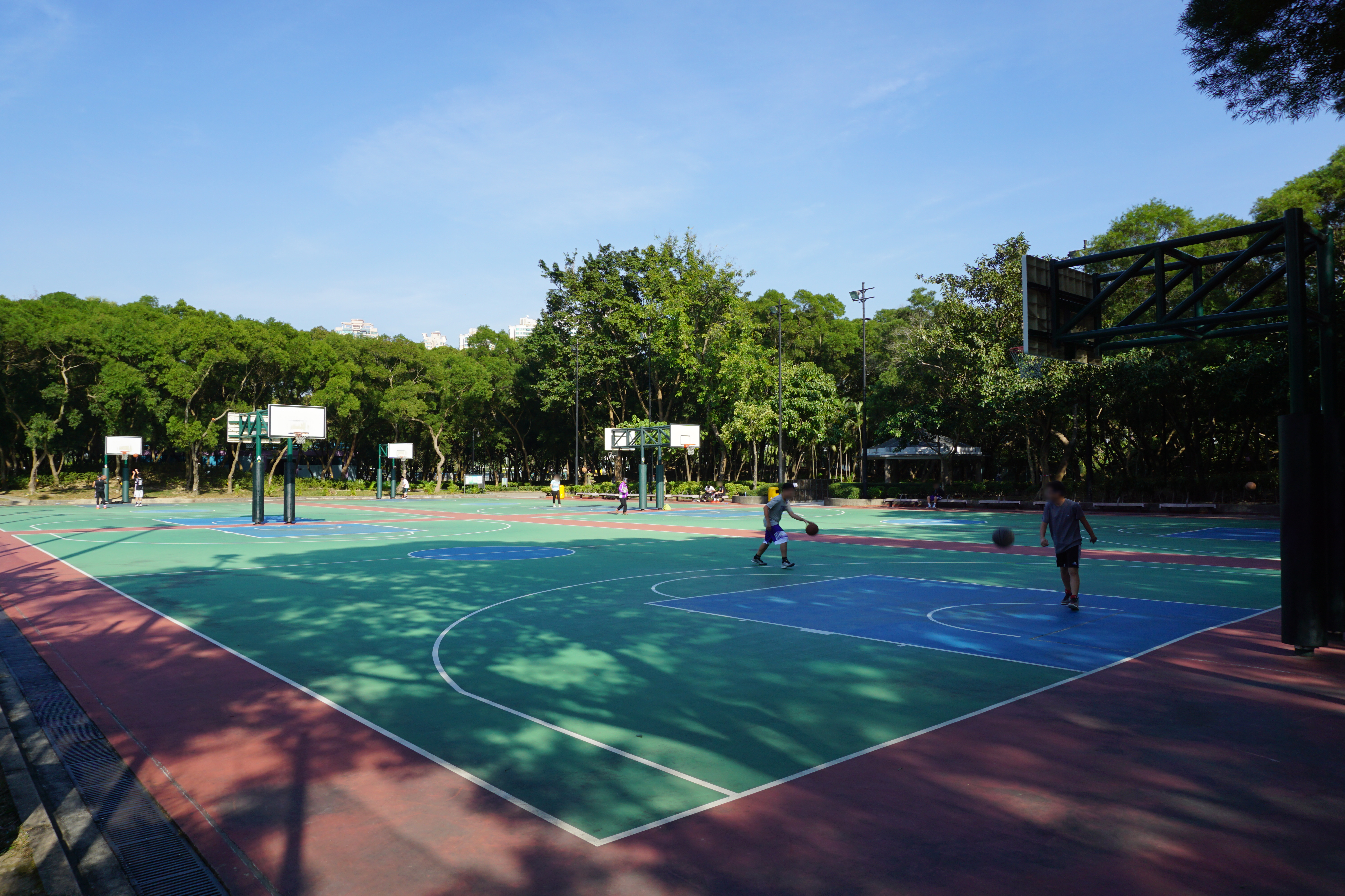 Wu Shan Recreation Playground in Tuen Mun, Hong Kong.